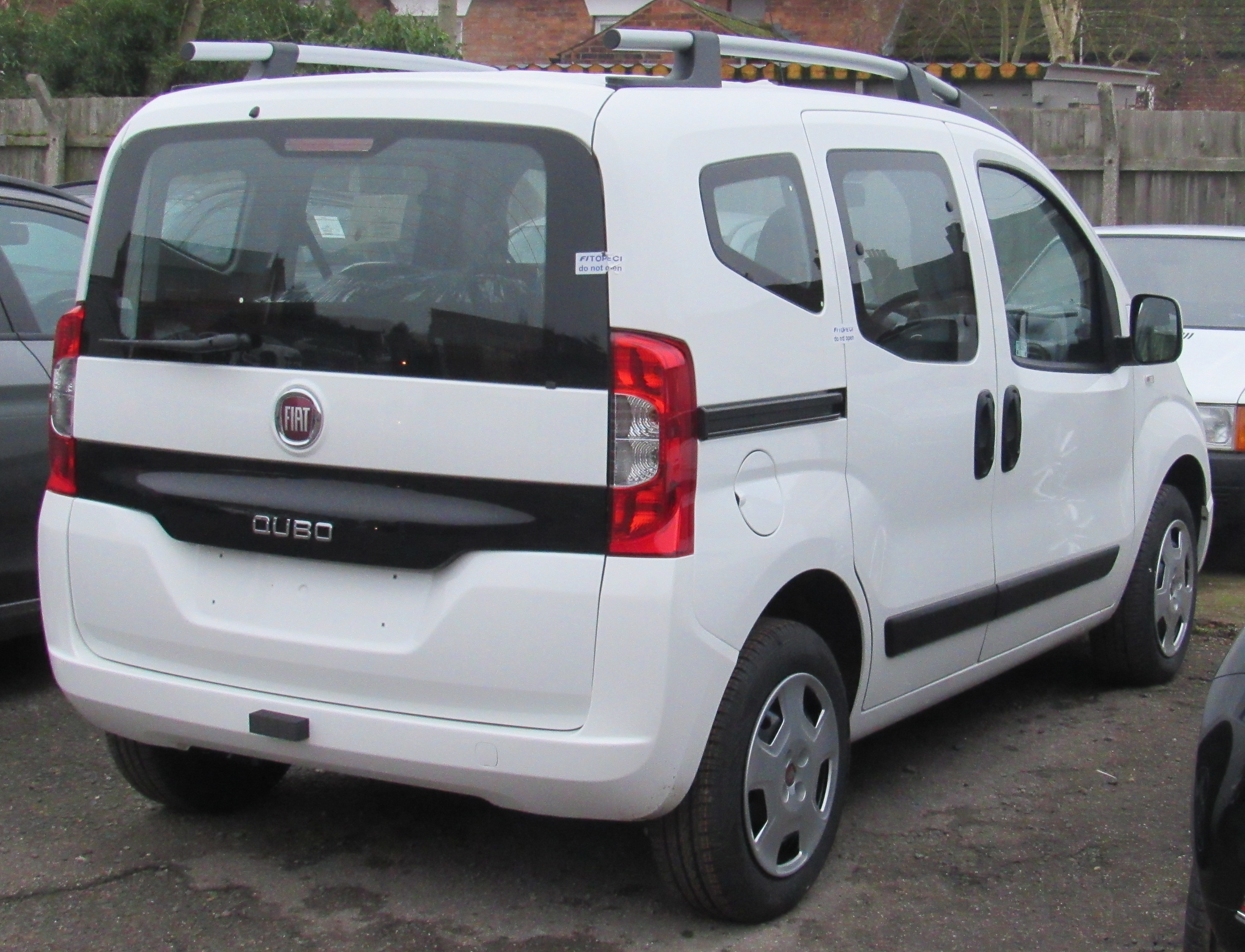 2017 Fiat Qubo facelift Rear Taken in Warwick